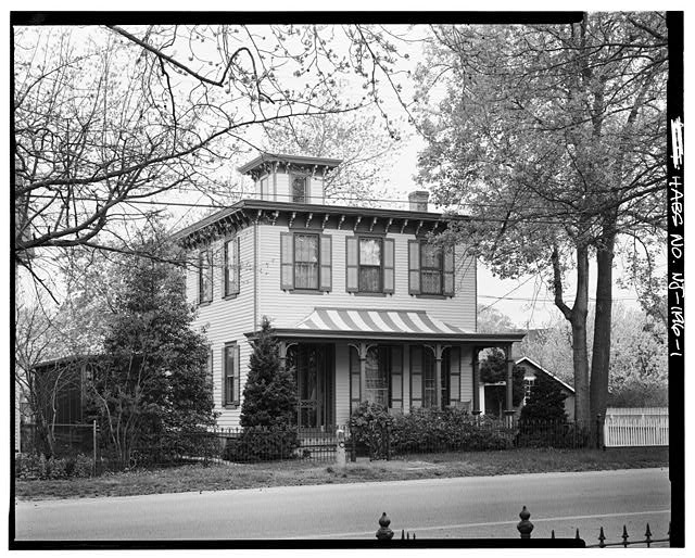 Captain Isaac Peterson House in 1991. View from the southeast across Front Street. Photographed for HABS/HAER survey by David Ames, Center for Historic Architecture and Design, University of Delaware.